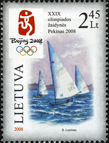 Stamps of Lithuania, 2008